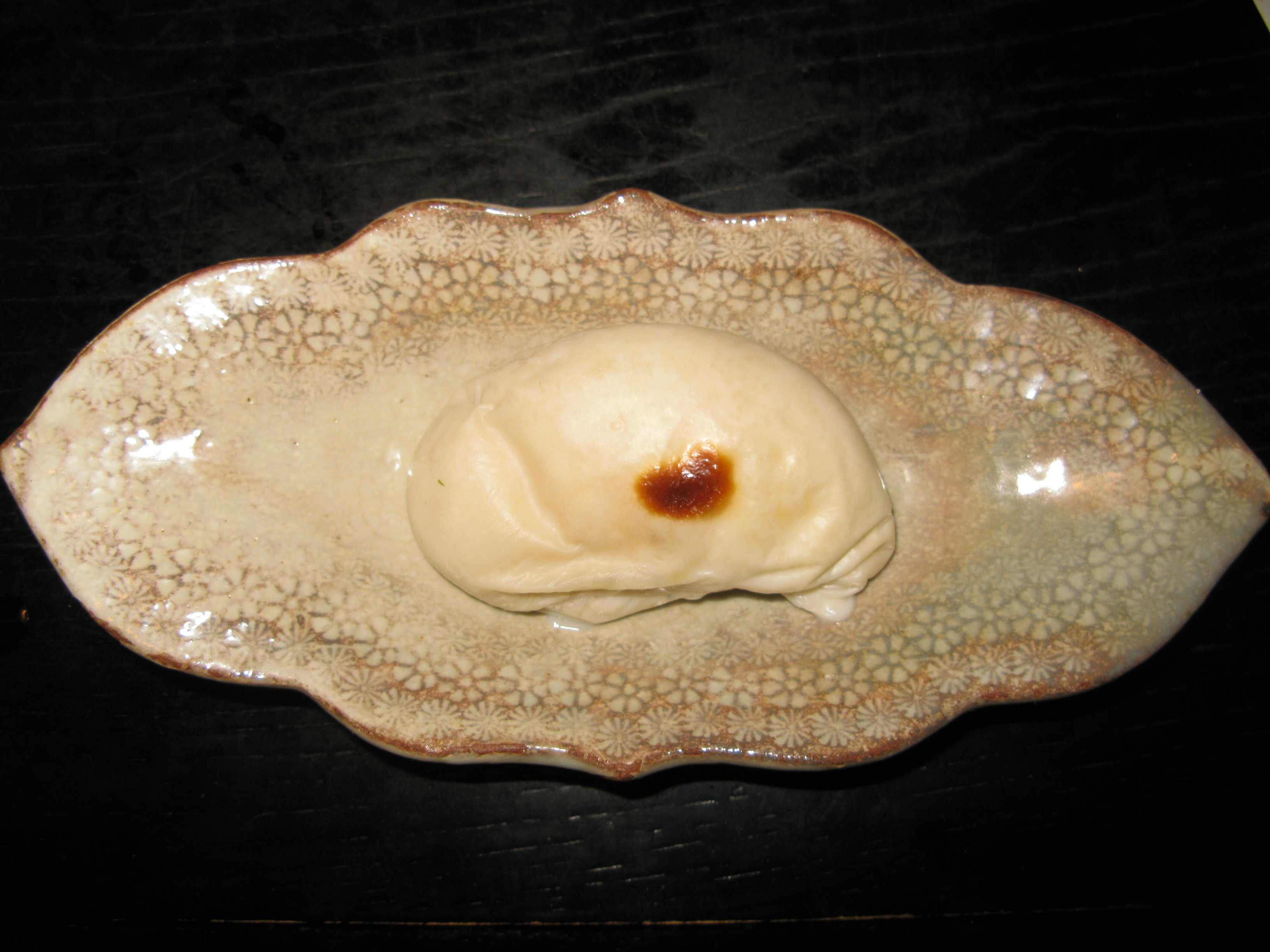 Milt of Globefish